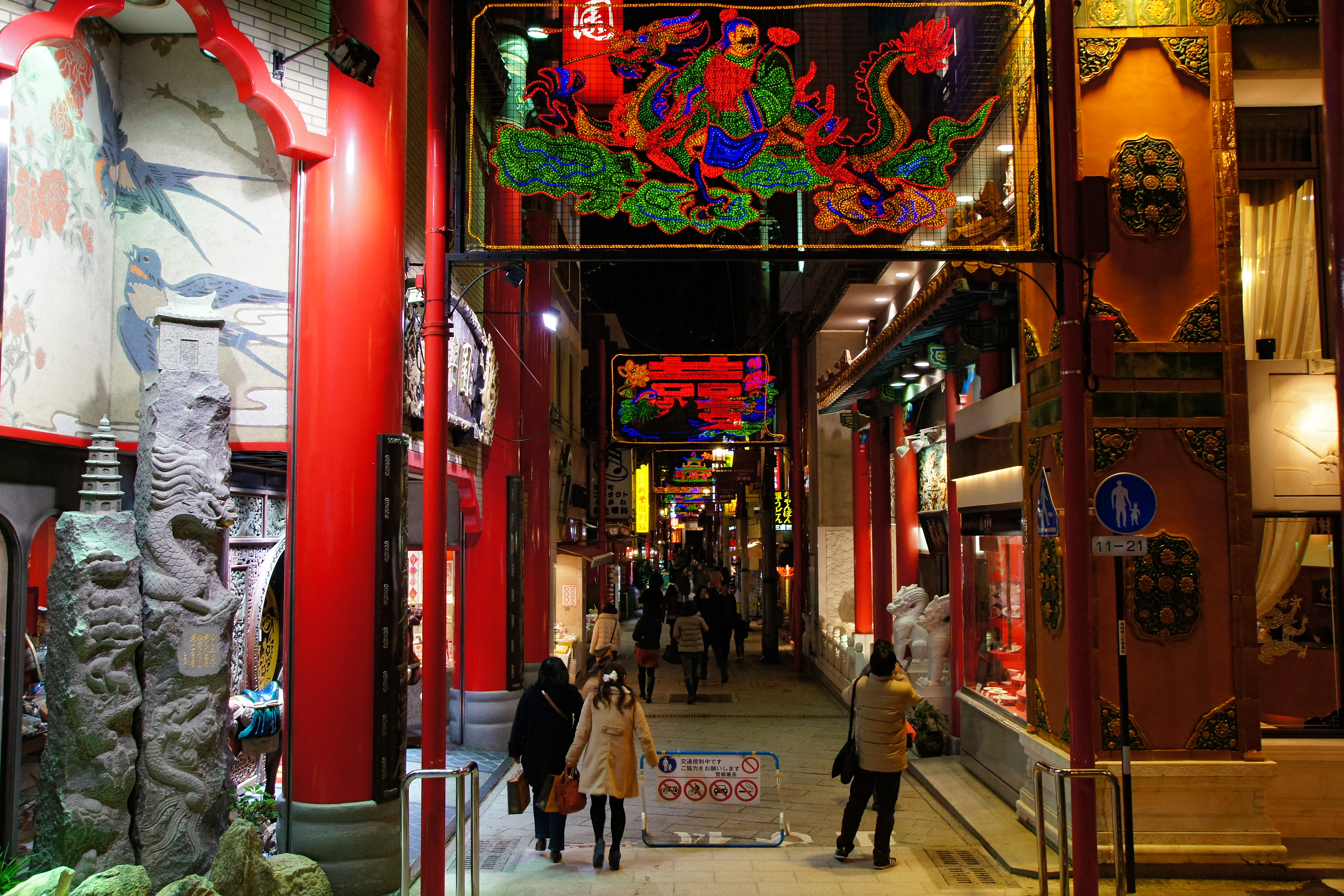 At Nagasaki Chinatown in Nagasaki City, Nagasaki prefecture, Japan